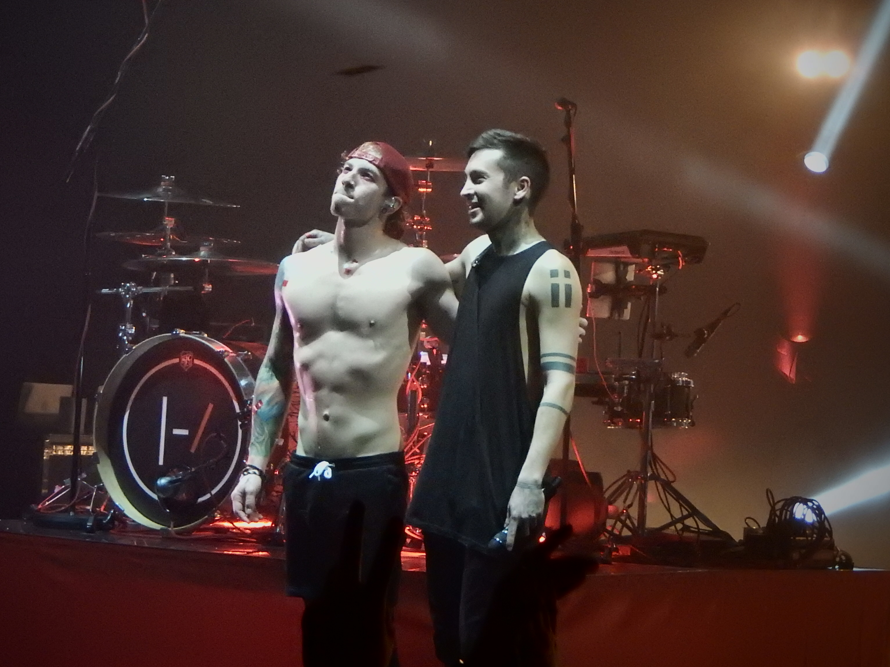 Twenty One Pilots, Brixton Academy, London